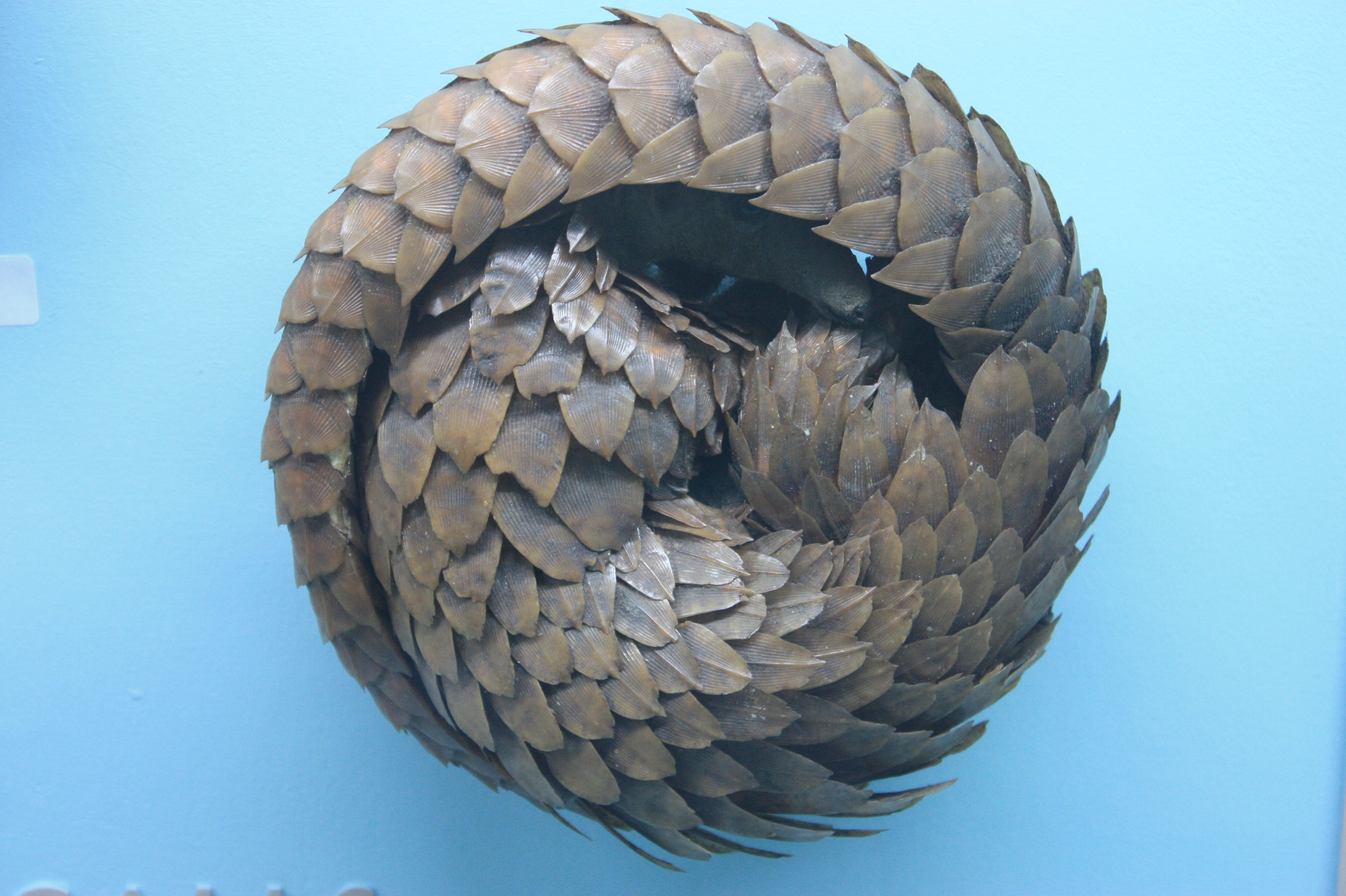 A pangolin in defensive posture, Horniman Museum, London